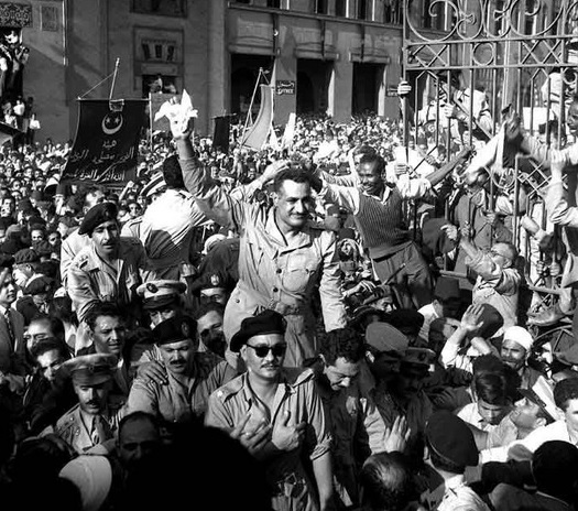 Prime Minister Gamal Abdel Nasser and some members of the RCC welcomed by cheering crowds in Alexandria after the signing of the British withdrawal order. (Salah Salem seated in front of Nasser with sunglasses), Kamal el-Din Husseini (behind Salem), Anwar Sadat (only partially visible, behind Husseini), Abdel Hakim Amer (standing behind Nasser, face not seen). Abdel Latif Boghdadi and Hussein el-Shafei are present in the car, but not seen.